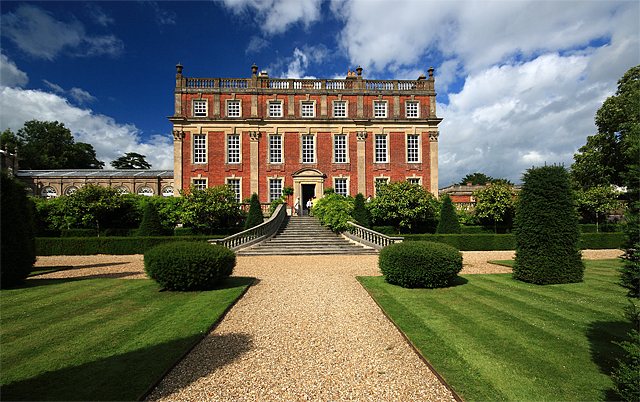 Ven House South Elevation